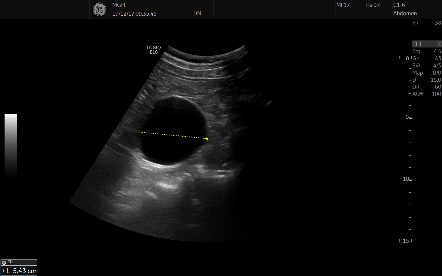 Renal cyst as seen on Abdominal ultrasound. (GE Logiq E10)